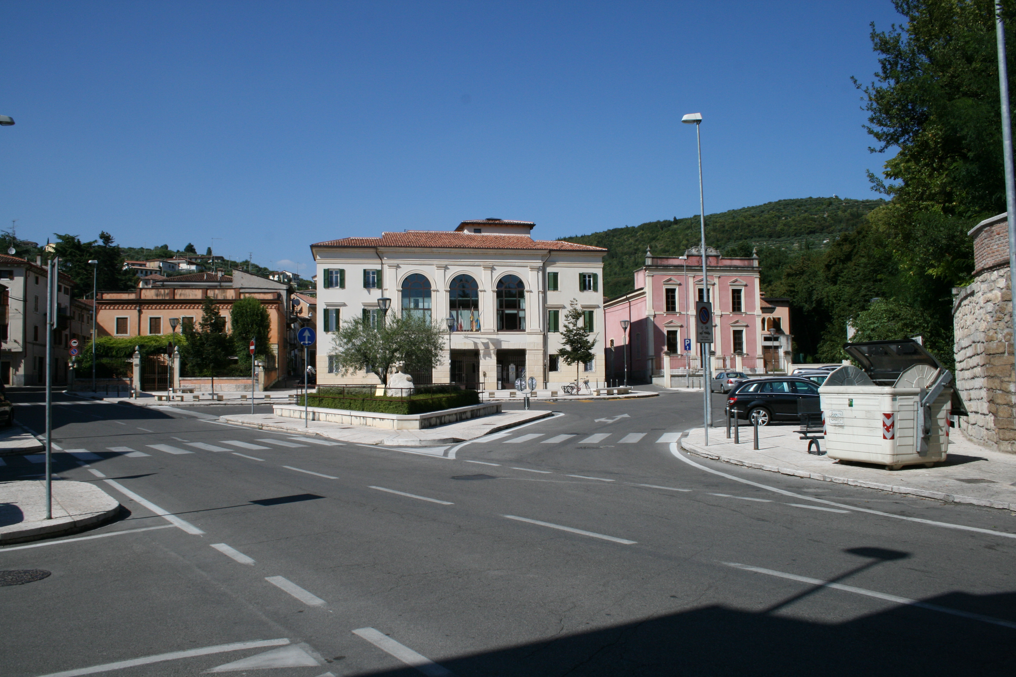 Quinzano's main plaza. Quinzano is a suburb of Verona Vèneto: La piassa de Chinsan.